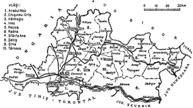 Map of Arad interwar county, Kingdom of Romania (1938).